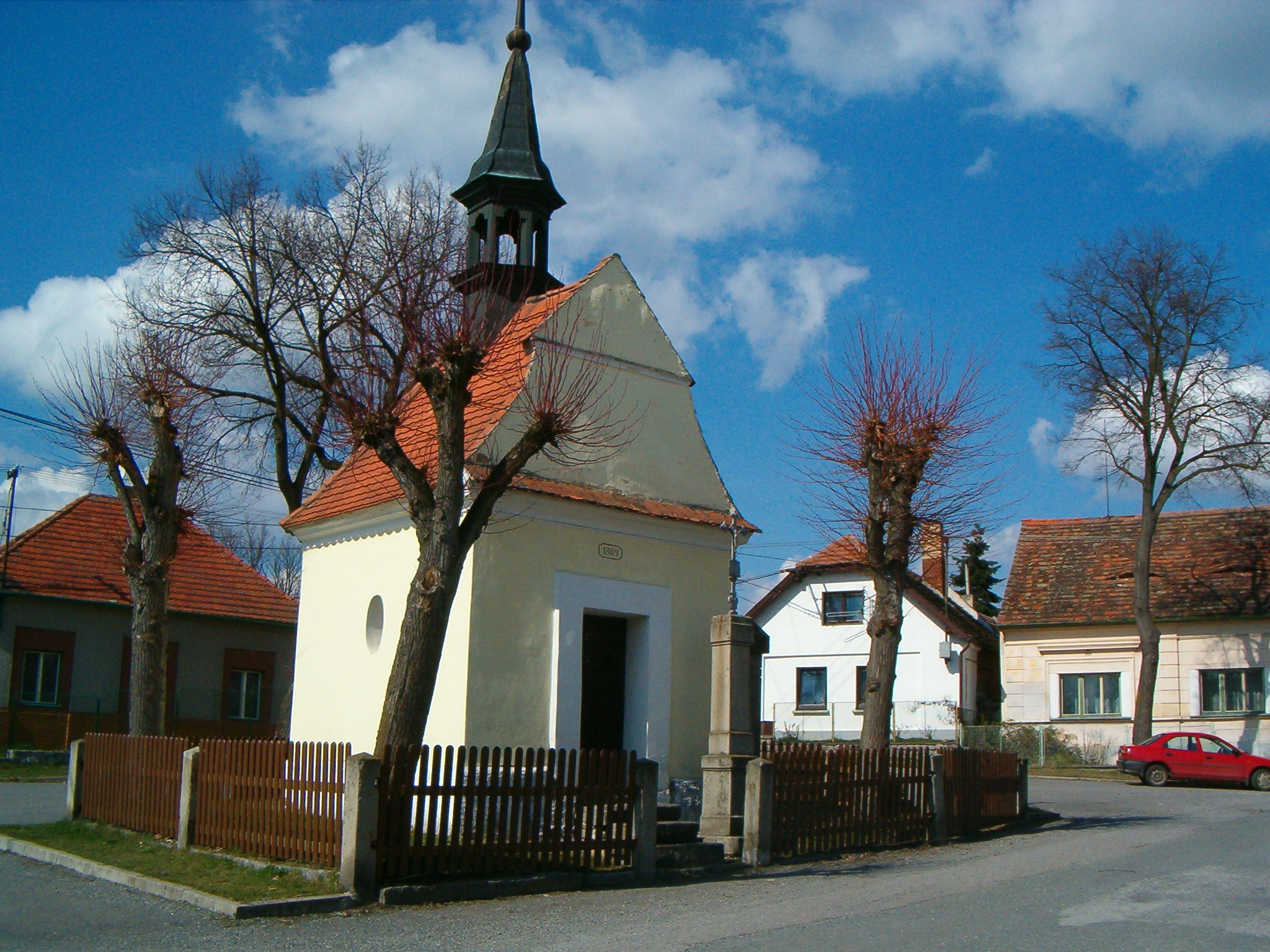 Chapel in Mačkov village (district Strakonice)